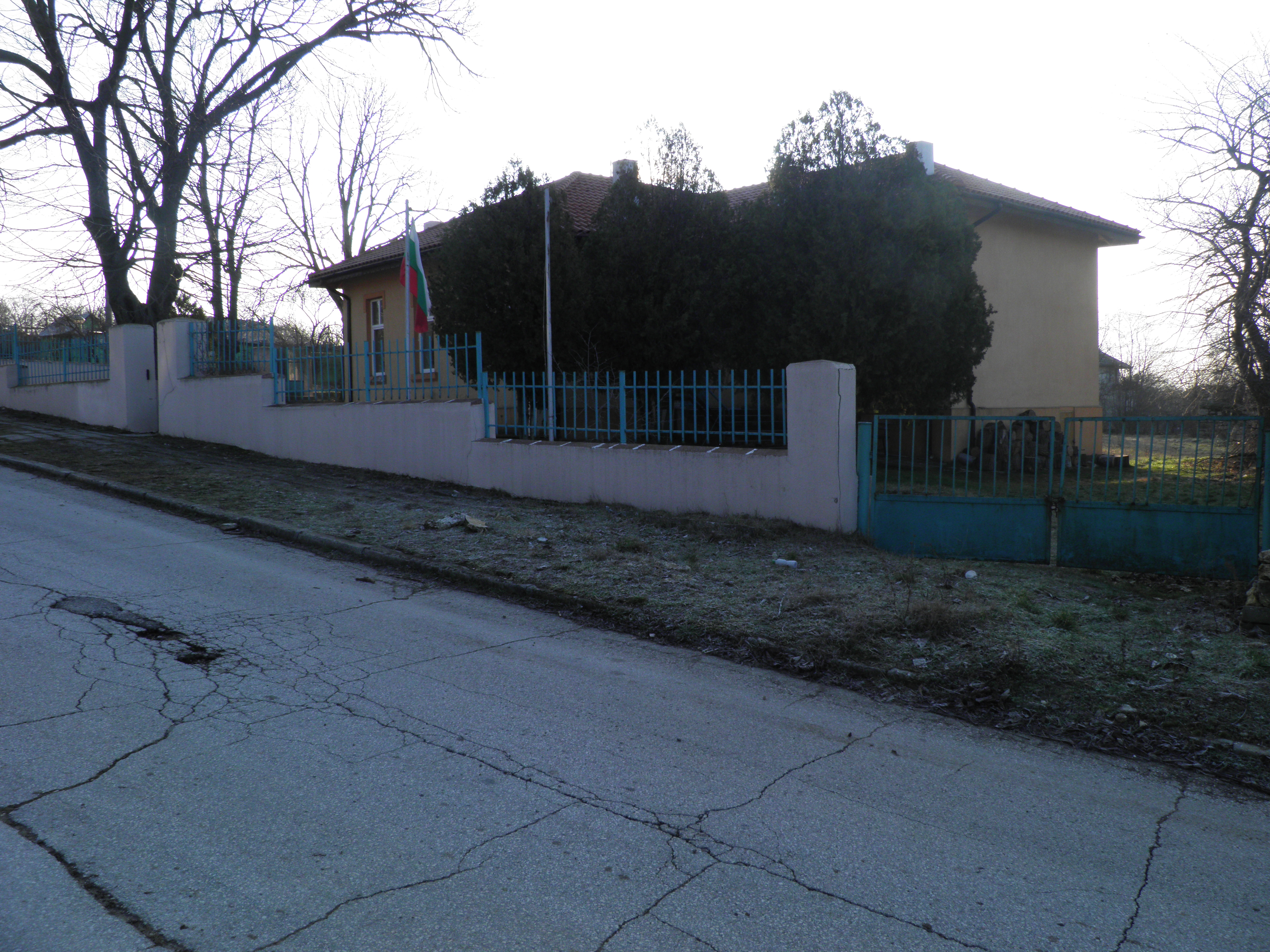 Town Hall in Oreshak,Varna,Bulgaria ex School building